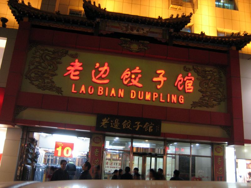 Shenyang's most renowned place for dumplings: Lao Bian Jiaozi Restaurant. It has branches all over the city. This is the first, and most famous location: 老邊餃子館 沈陽市沈河區中街路208號 tel: 024-24865369